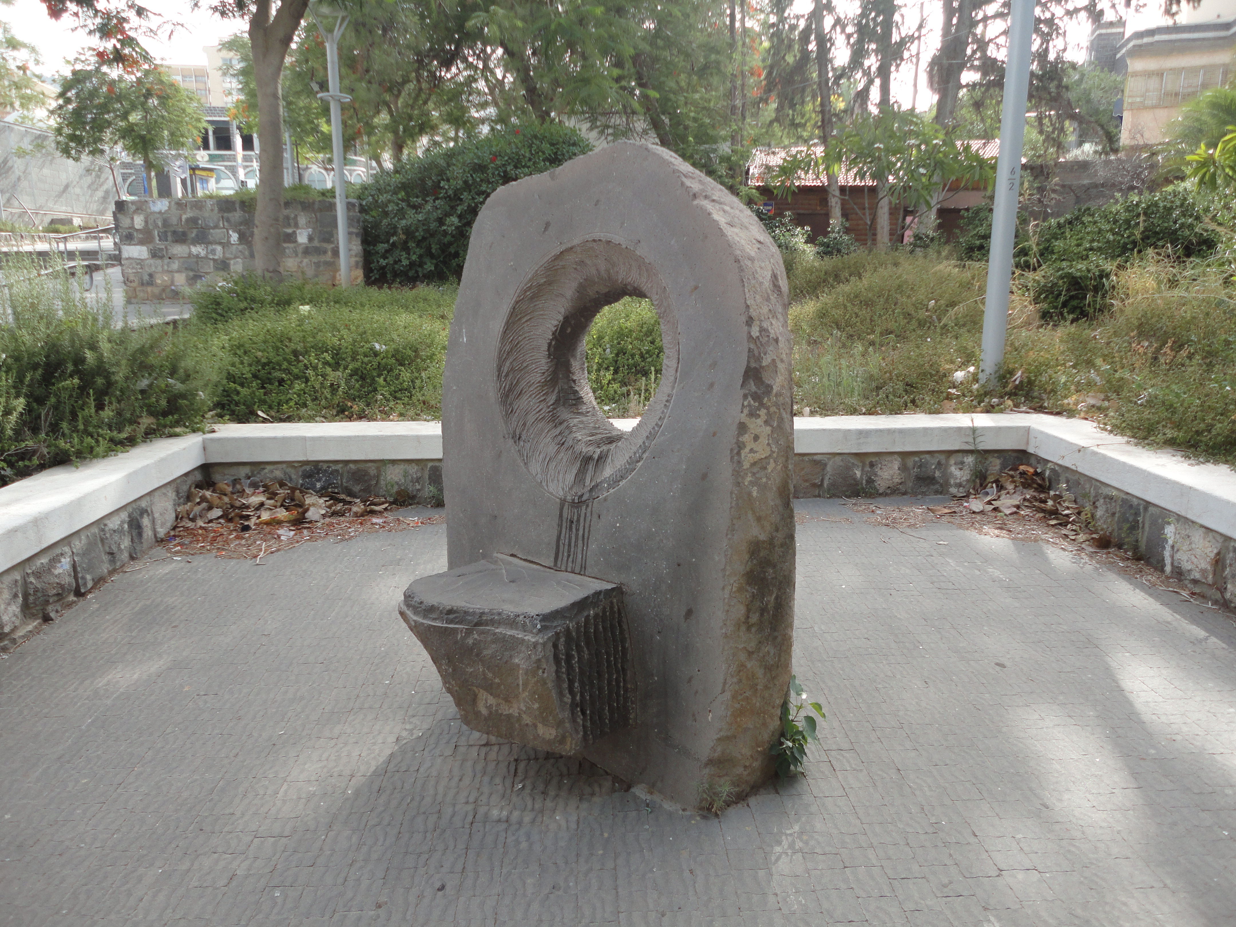 Basalt Seat, Jon-Pat Myers. Tiberias Open Air Museum